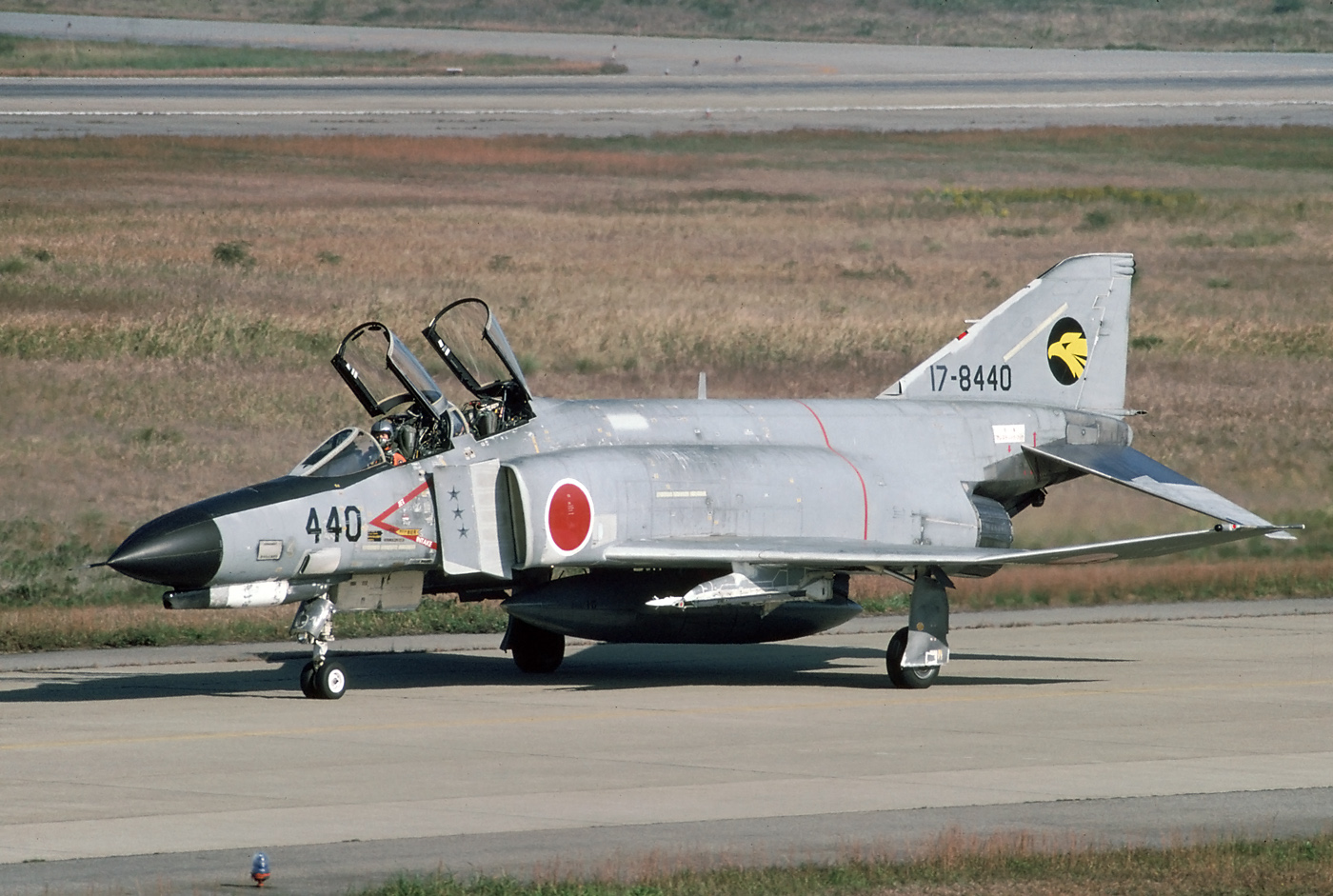 This is the 17-8440, the final Phantom of the 5,195 to be built. It was built by Mitsubishi Heavy Industries and delivered on 20 May 1981. Seen here with 306 Squadron at Komaki Air Base, as of 2017 it is still in service, with 301 Squadron at Hyakuri Air Base in Ibaraki Prefecture.